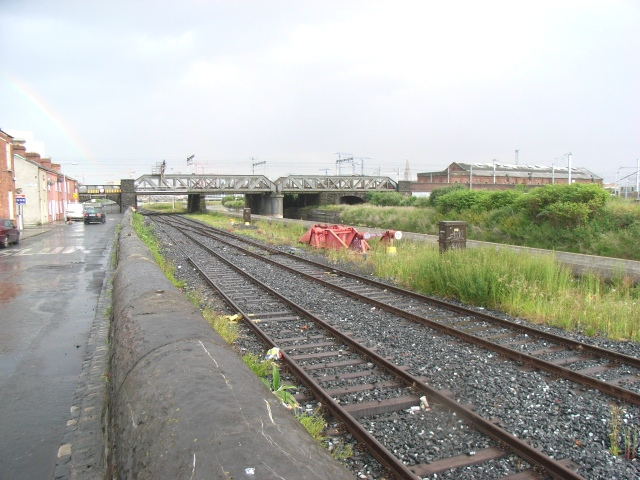 Spencer Dock North End. The terminus of the Royal Canal in Dublin's Docklands.